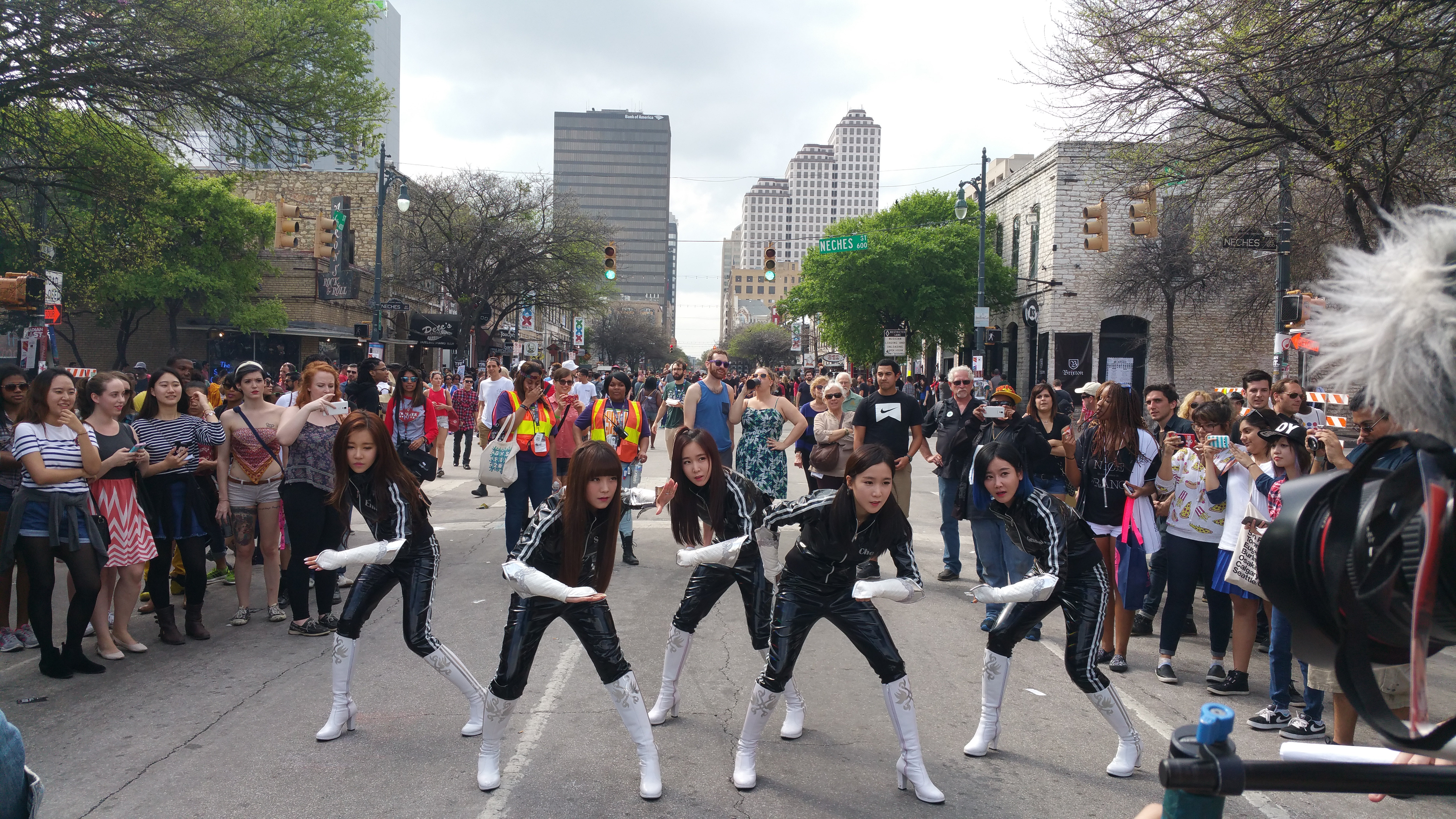 Crayon Pop filming on the streets of Austin at SXSW 2015, KPopNightOut.